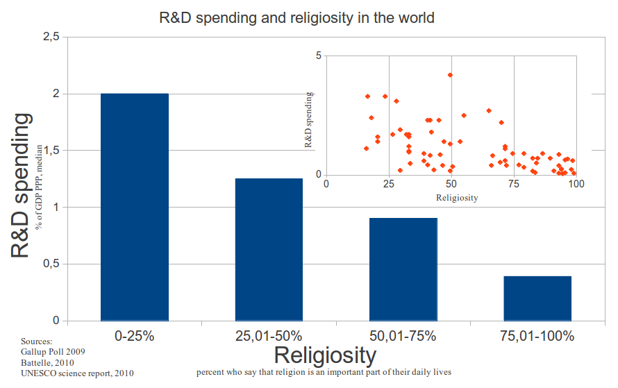 Importance of religion and research and development (R&D) spending (% of GDP PPP). Incut - individual countries, main diagram - median value in each category. Sources of data: Importance of religion ( Gallup Poll 2009), R&D spending1, R&D spending2 Importance of religion - percent who say that religion is an important part of their daily lives.